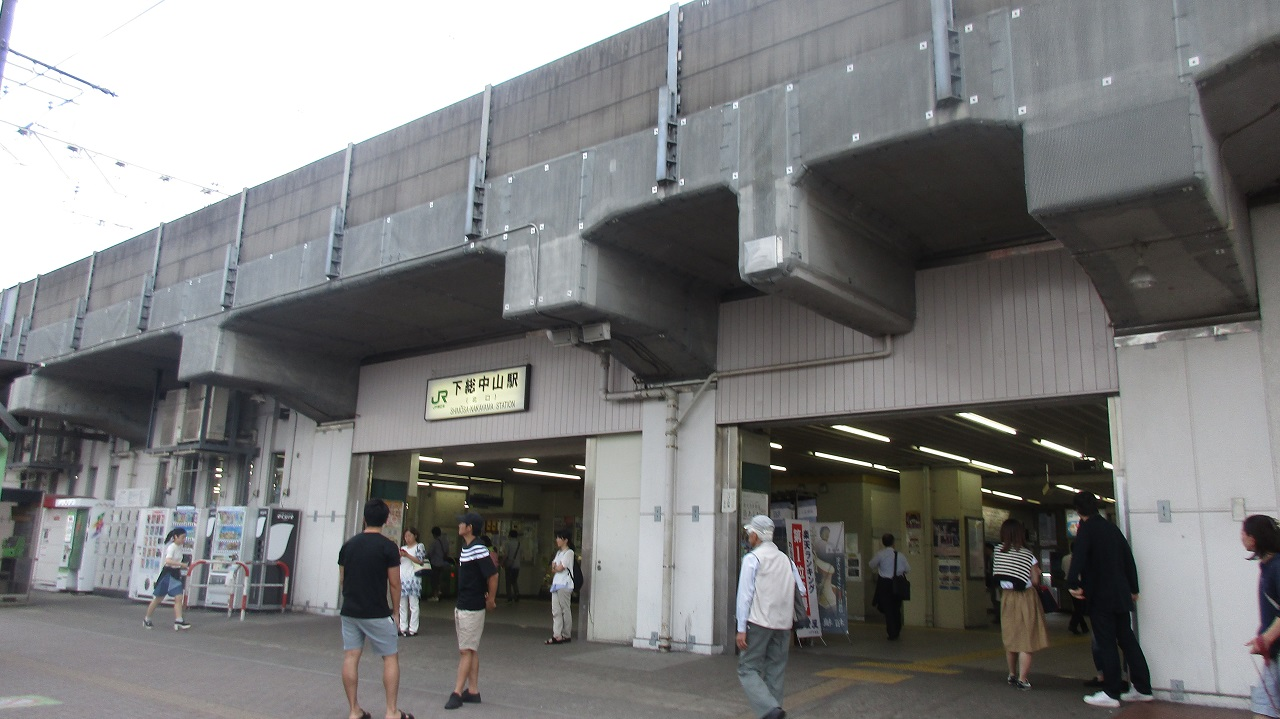 JR総武本線 下総中山駅